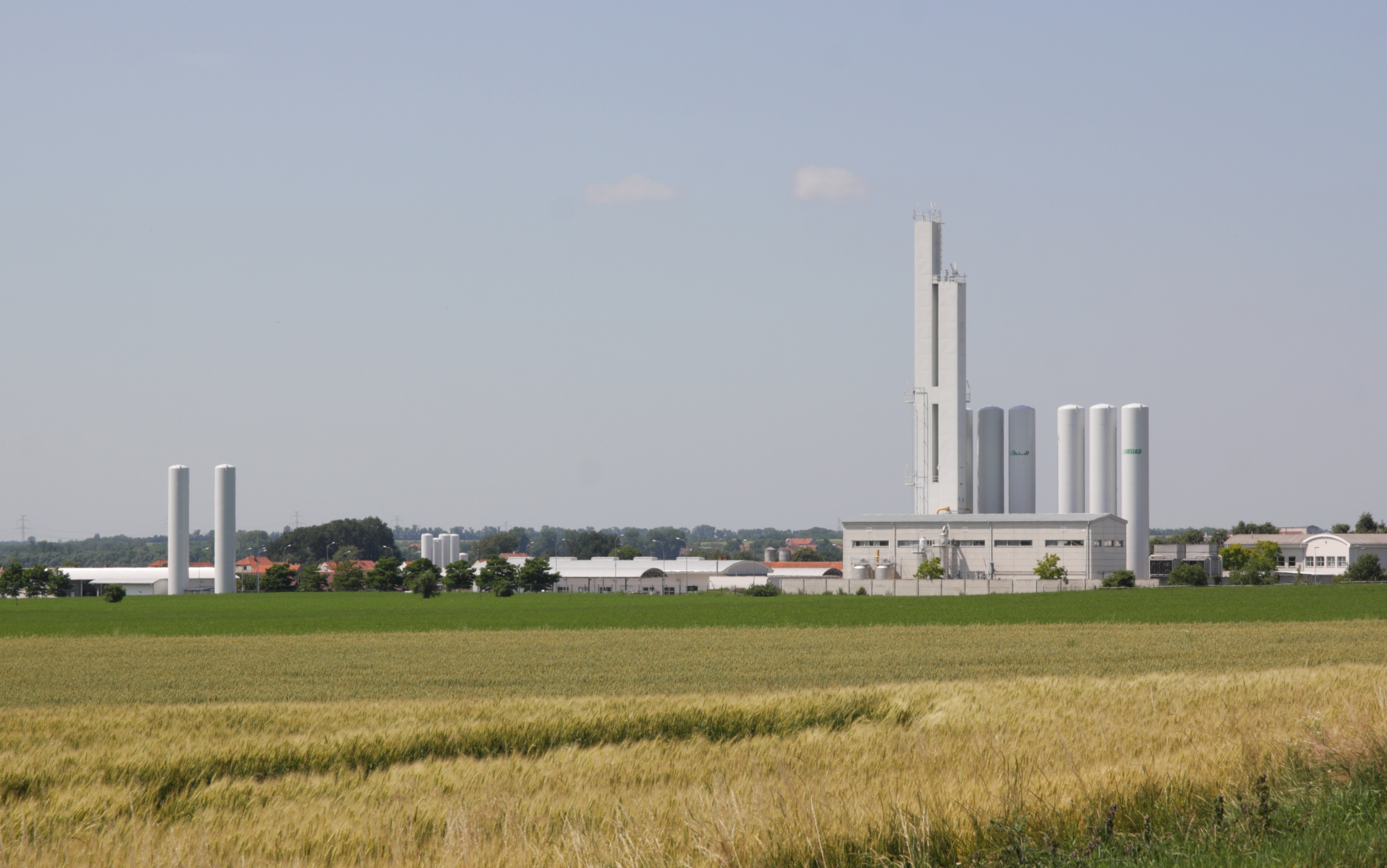 Gas production plant of SIAD company in Rajhradice, Czech republic.